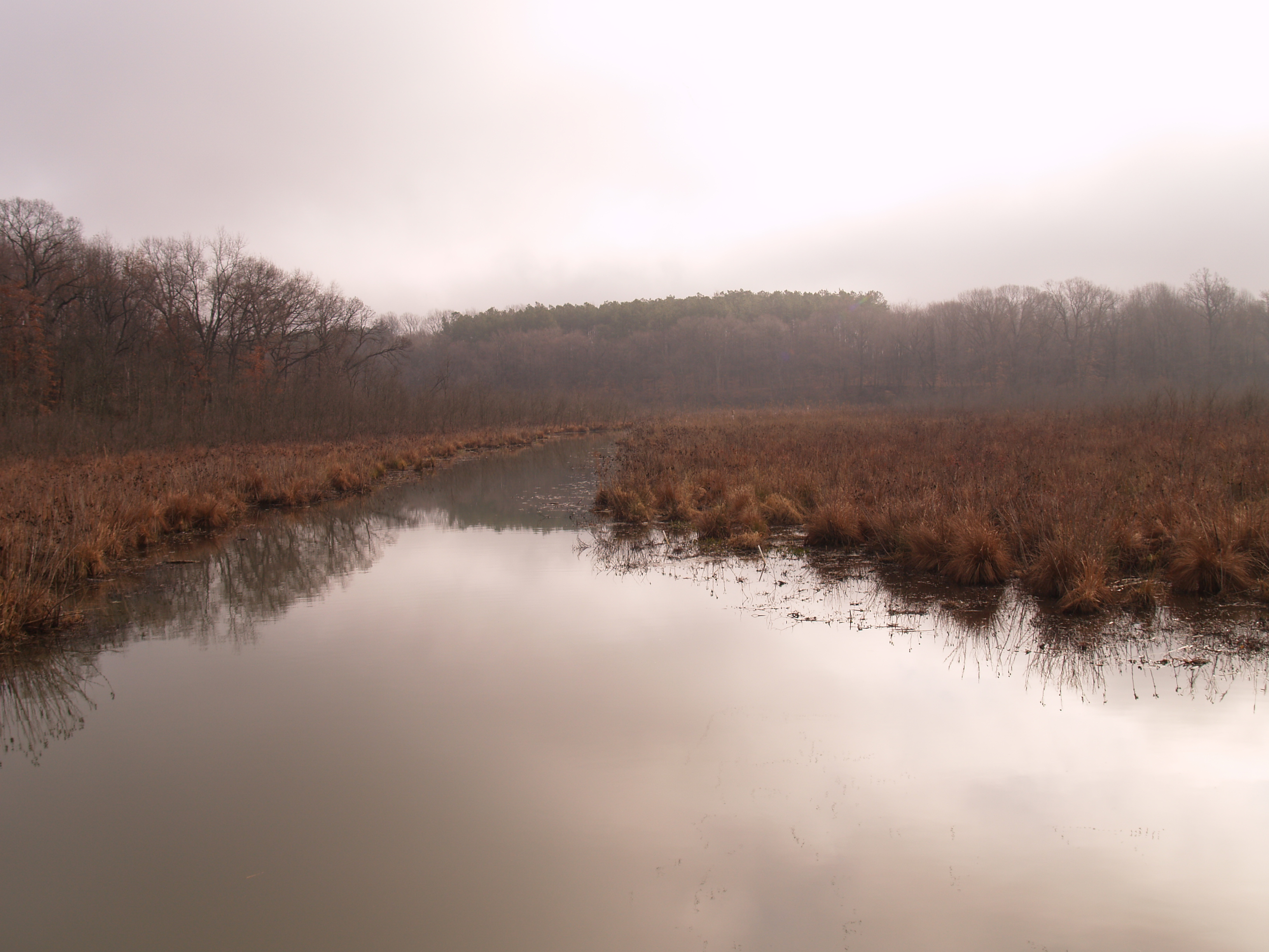 Dragon Creek (Delaware River tributary) from Clarks Corner Road. The stream is impounded in this area.